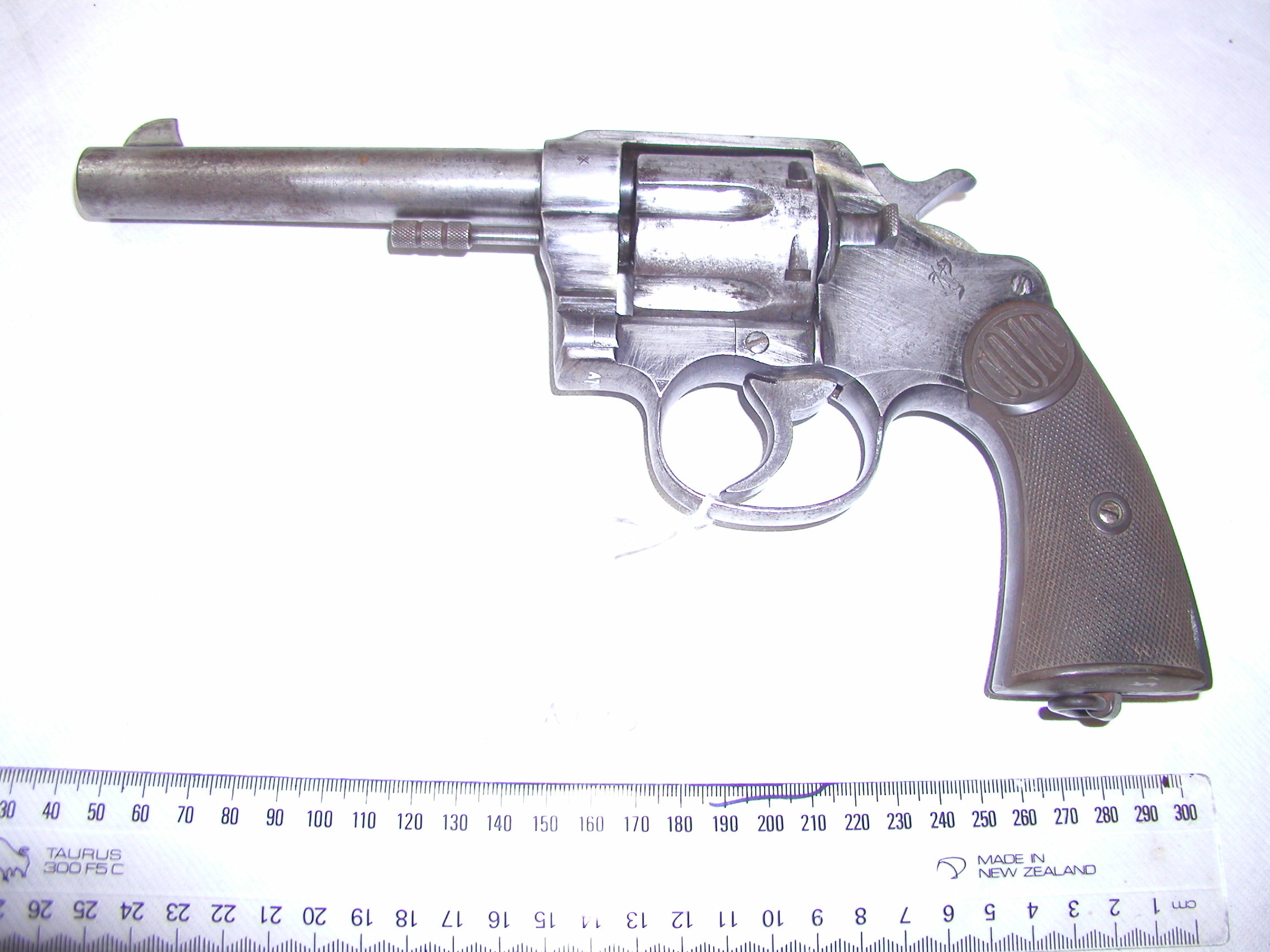 Colt New Service Model 1898 revolver, circa WWI .455 inch calibre; six-shot; double action; centrefire; oval lanyard ring on butt; composite chequered grips markings- serial number- 10431 maker's name- COLTS PT MFG CO, HARTFORD CT U.S.A. - PAT'D AUG 5 1884 JUNE 5 1900 JULY 4 1905 - NEW SERVICE 455 ELEY on left hand rear of body- trademark- illustration of rampant horse manufacturer Colts PT FA Mfg. Co. Hartford, Conn. USA, c.1920s